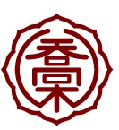 Takagi Nagano chapter